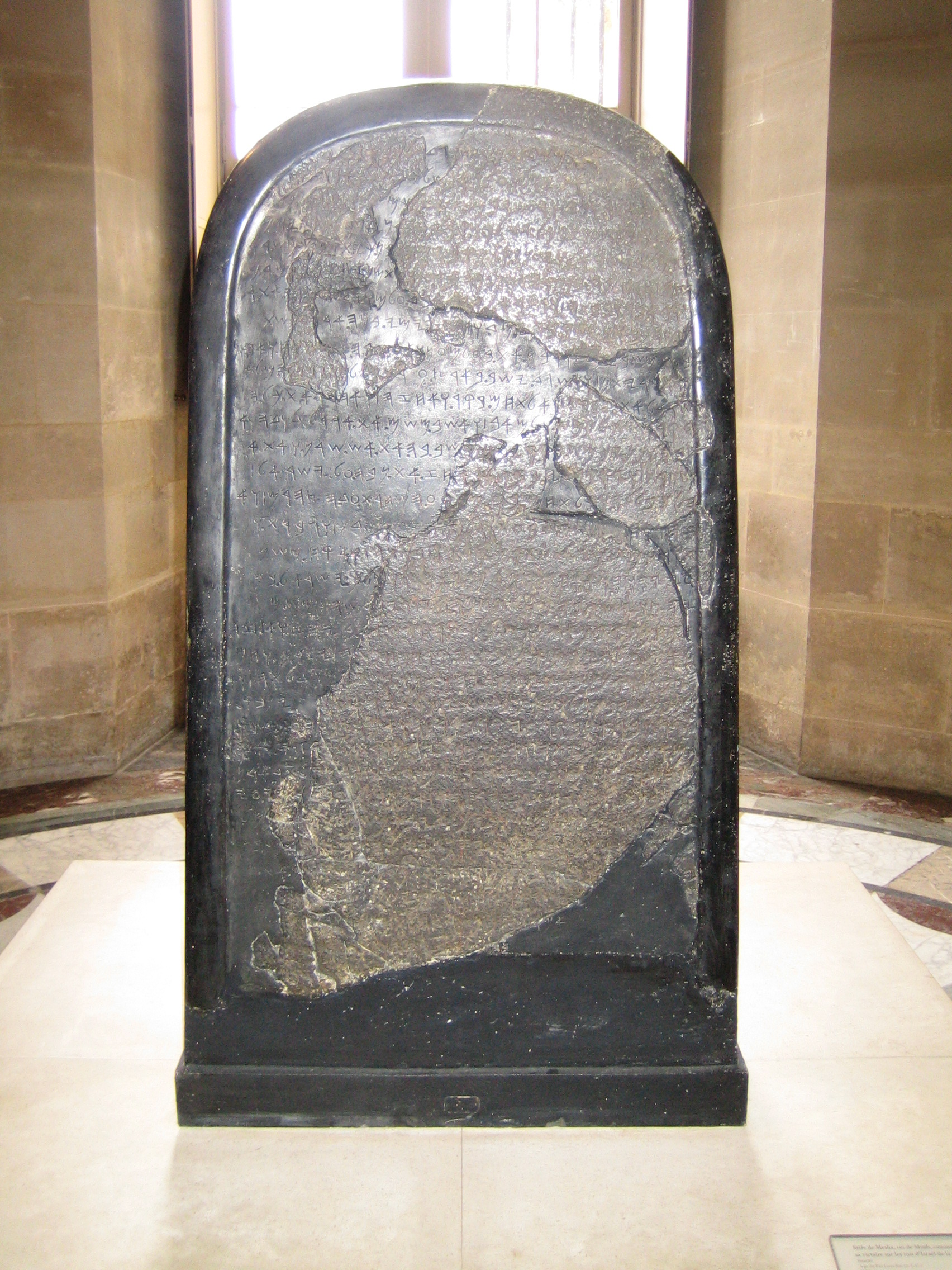 aka. the Moabite Stone (2007-05-19T14-10-19.jpg)